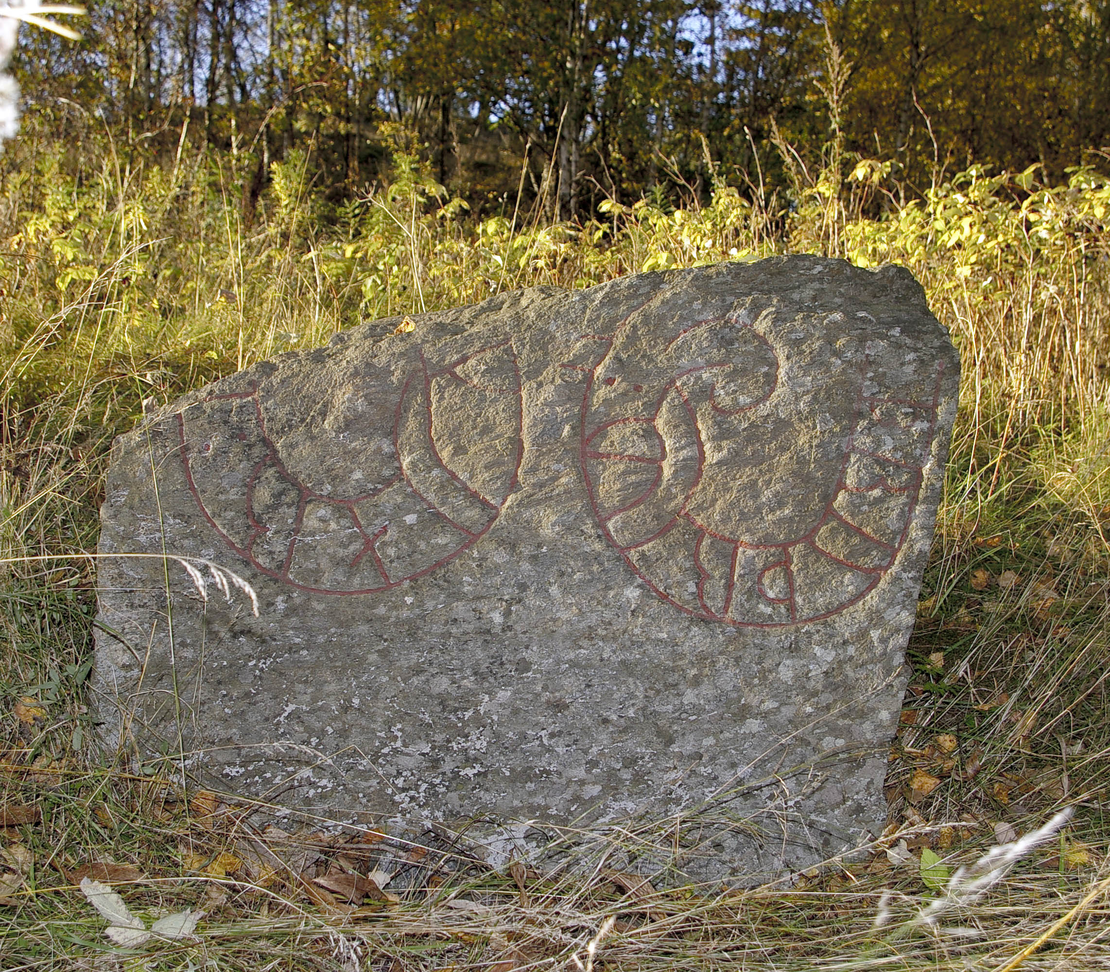 Runestone fragment Sö 259 in Alby, Södermanland, Sweden English translation of runic text: ... brother ...